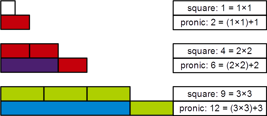 Showing, through Cuisenaire rods, that 2, 6, and 12 are pronic numbers, n(n+1), and square numbers plus n, n^n+n.